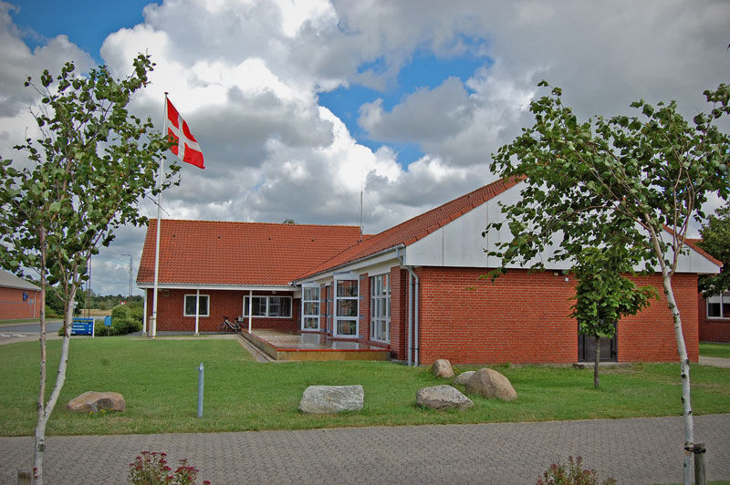 HTX Skjern